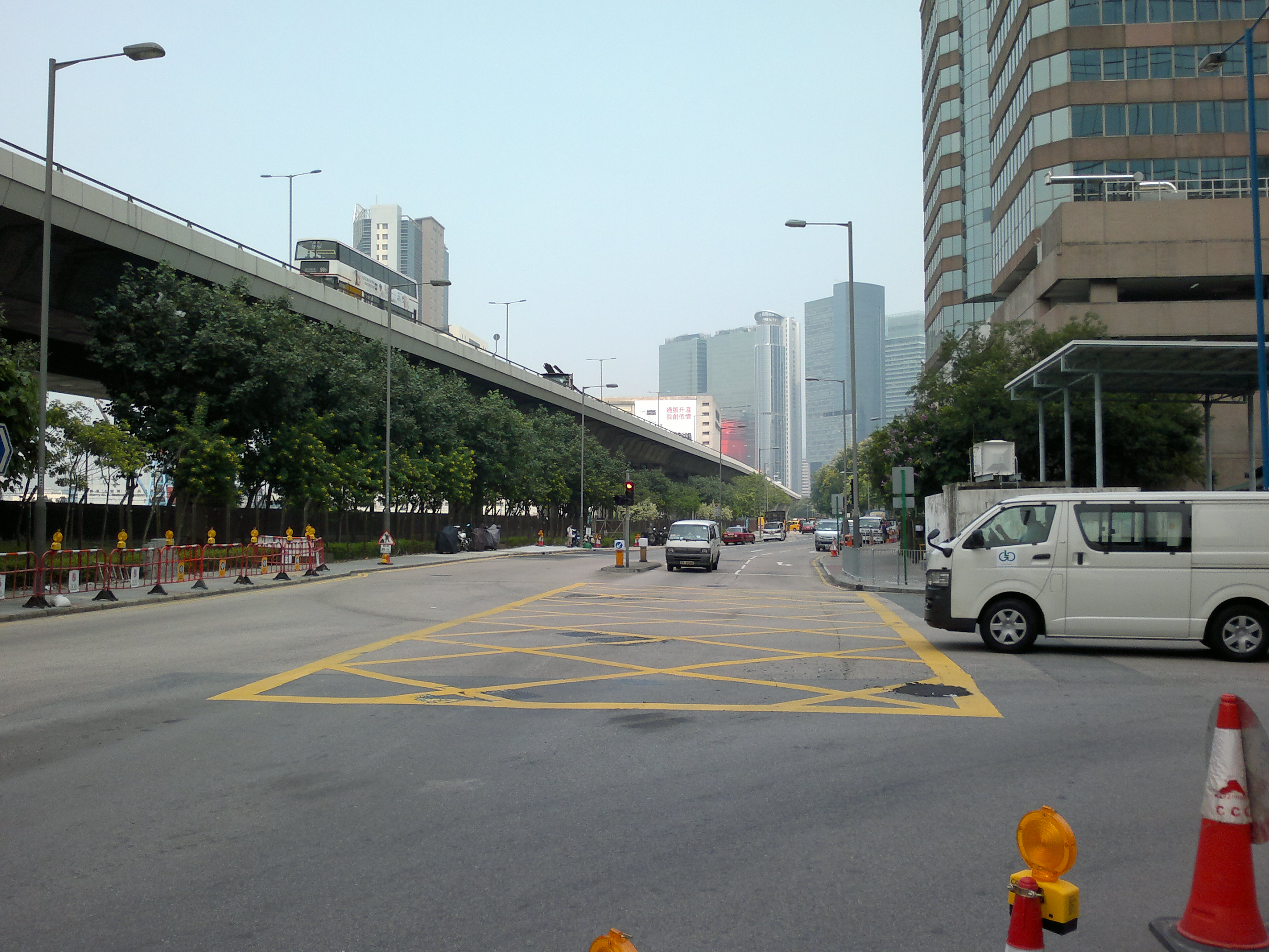 Hoi Bun Road near Lai Yip Street